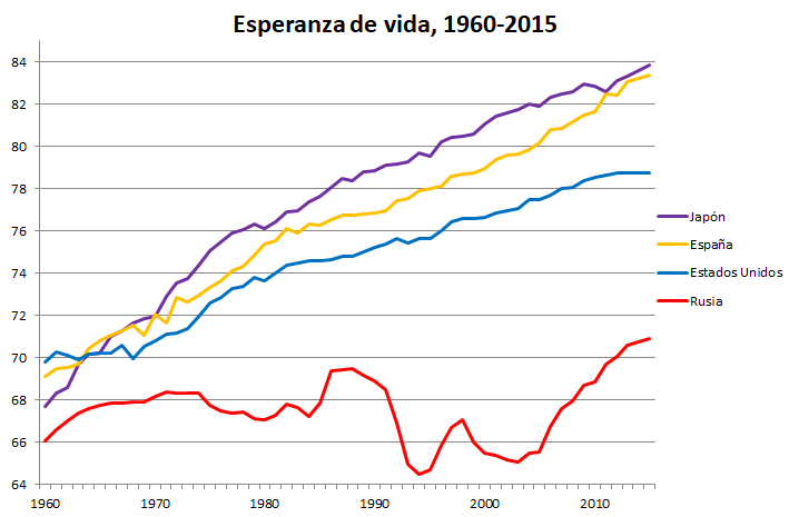 Life expectancy in USSR